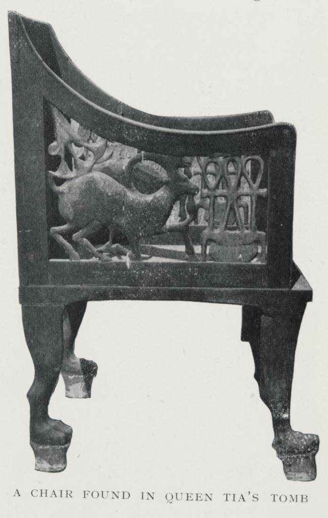 A heavy stylized chair with a ram on the side and legs in the shape of animal legs. KV 32. Queen Tiaa.